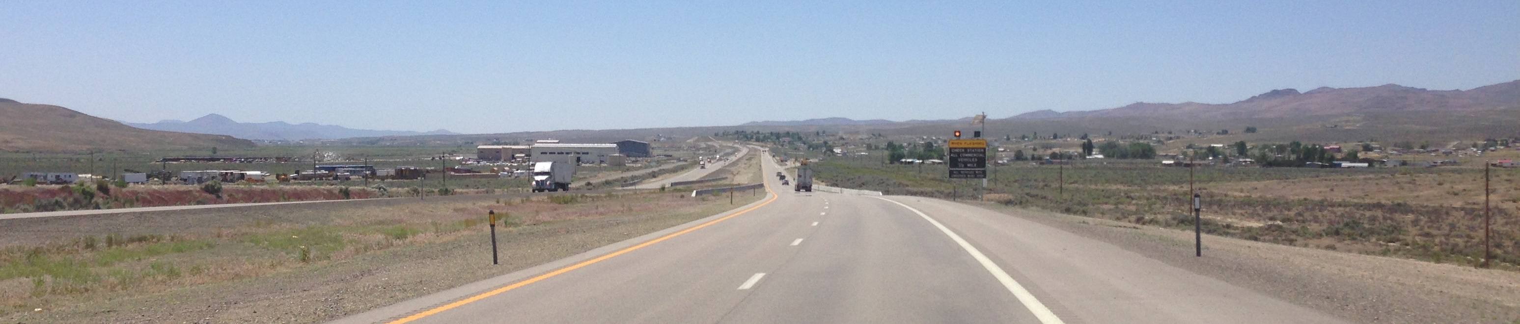 View west along Interstate 80 from around milepost 313 near Osino, Nevada-cropped